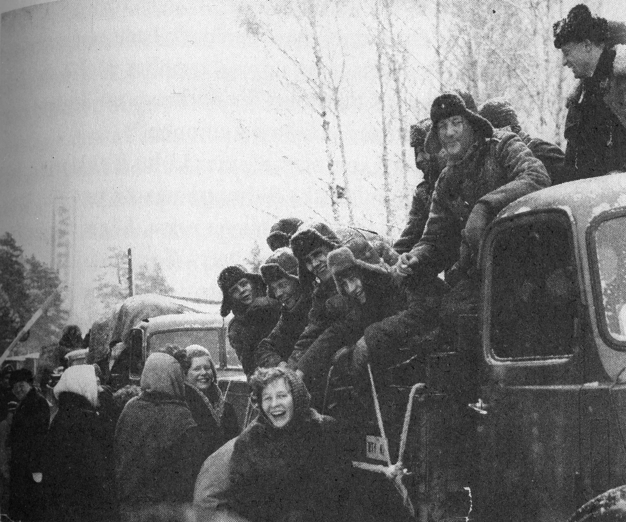 On January 26, 1956, the border gates where opened and the first finnish troops returned to Porkala. For the evacuees, sightsseing tours were initially arranged in the area.